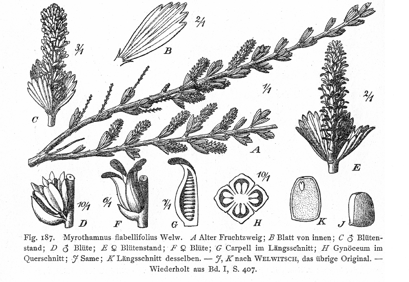 Myrothamnaceae Myrothamnus flabellifolia, from Vegetation der Erde (1915) v. 9 Bd. III, Heft 1. Fig. 187. by Adolf Engler (1844-1930)